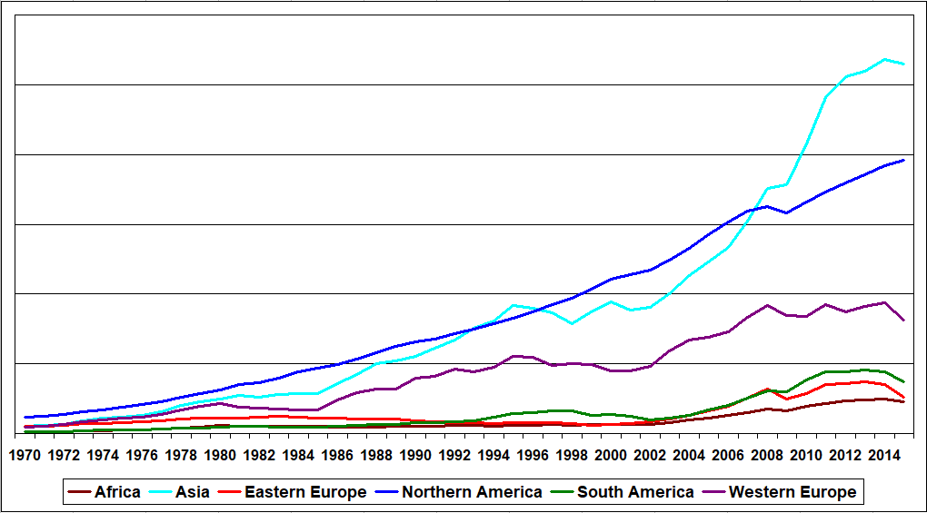 GDP at current prices: Africa, Asia, Eastern Europe, Northern America, South America, Western Europe. Timeline: 1970 - 2015